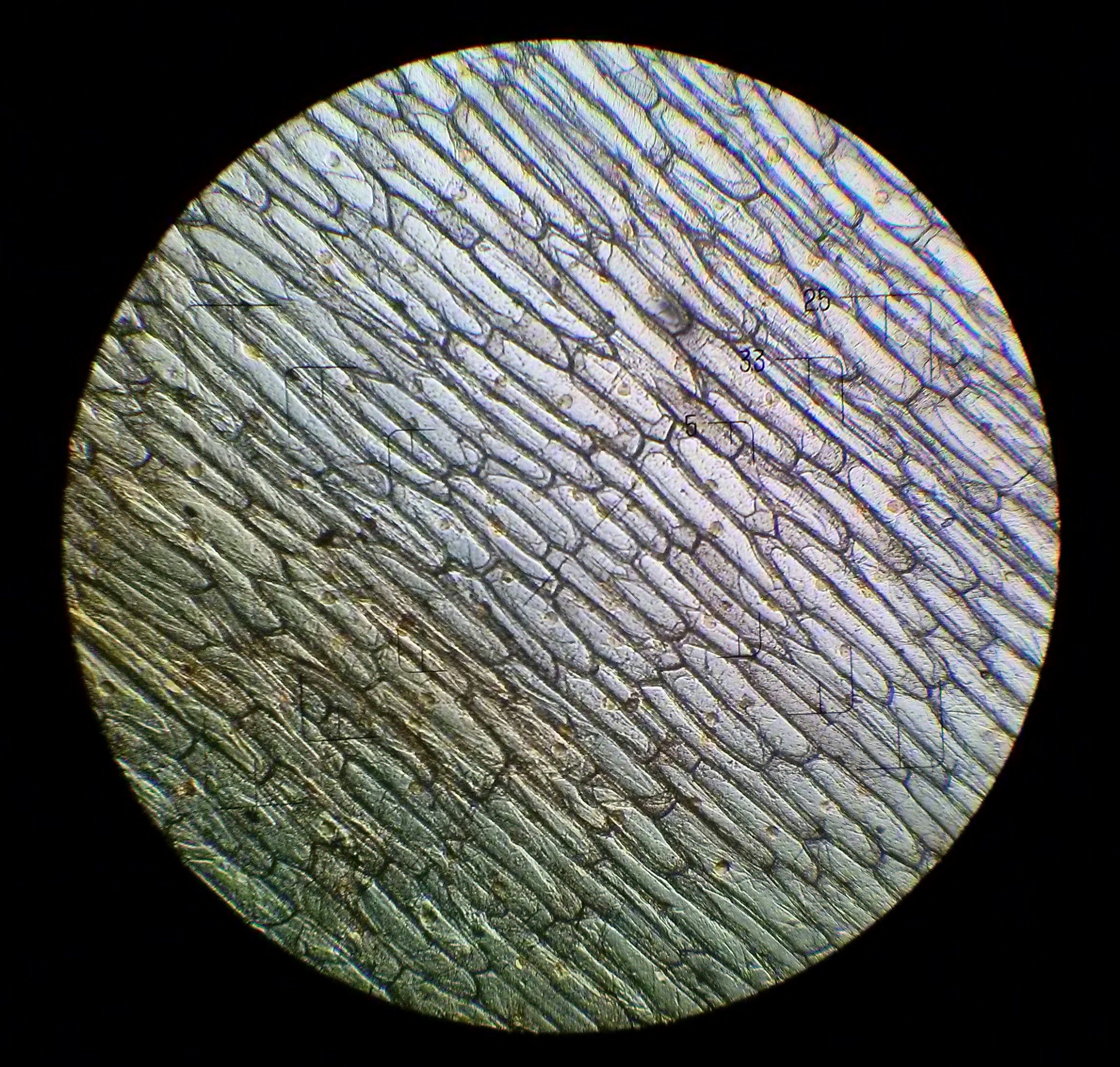 Onion cells through the light microscope.